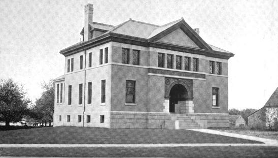 Public library, Massachusetts